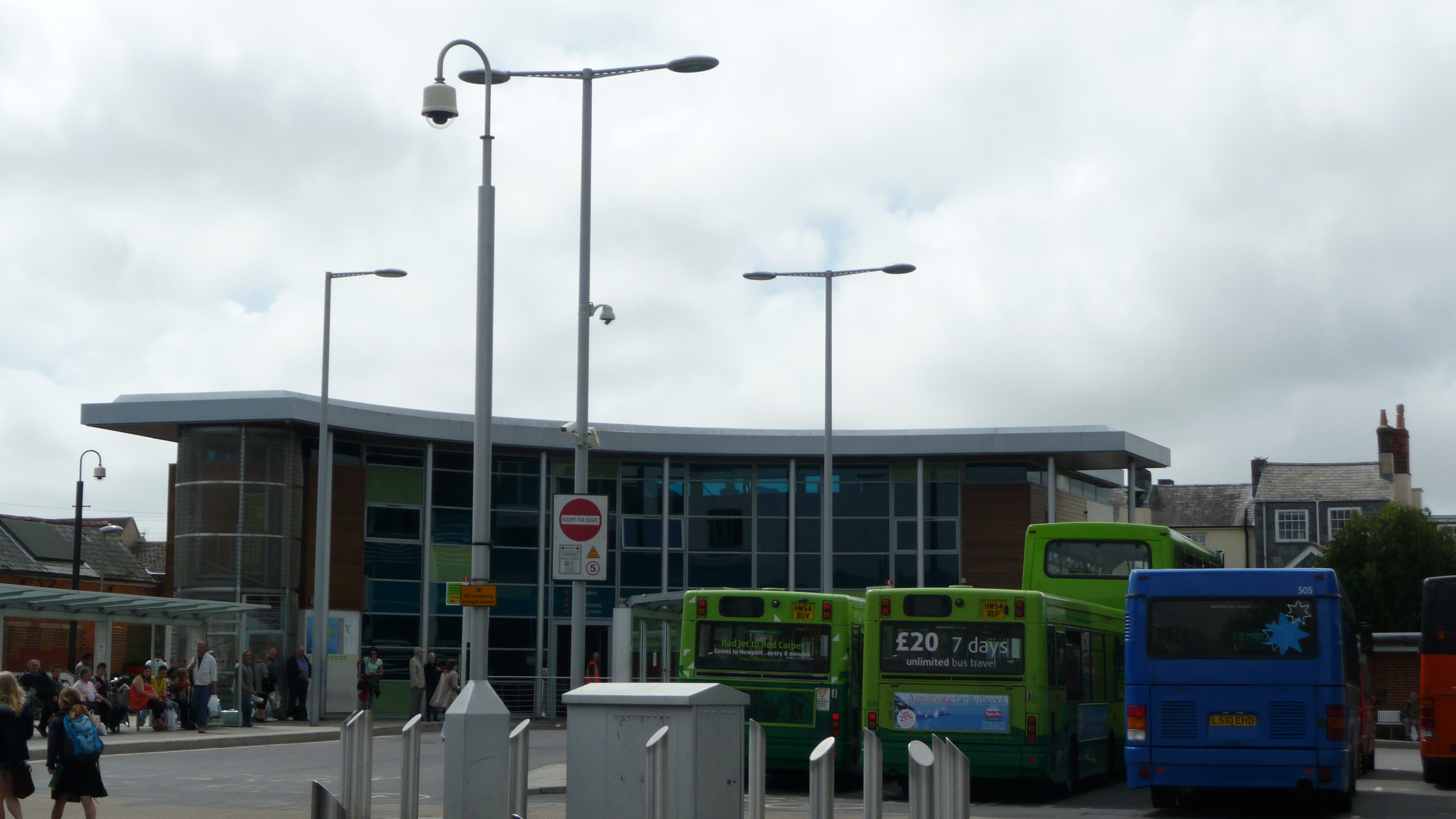 Newport bus station, Newport, Isle of Wight, viewed from its eastern side. Seen are the usual green Southern Vectis buses, as well as a blue intruder in the form of ex-Bluestar 505 (L510 EHD), which had joined the Southern Vectis coach fleet. The Southern Vectis buses are 314 (HW54 BUV) (left) and 308 (HW54 BUF). The double decker is 1054 (YN03 DFL).